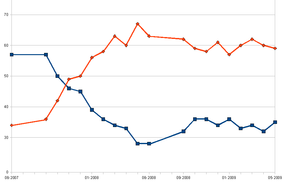 Opinion poll by BVA over the domestic policy led by the French government from May 2007. The question asked to the people was: Would you say the economic policy led by the government is very good, quite good, quite bad or very bad ? In bleue: "very good" or "quite good". In red: "very bad" or "quite bad".